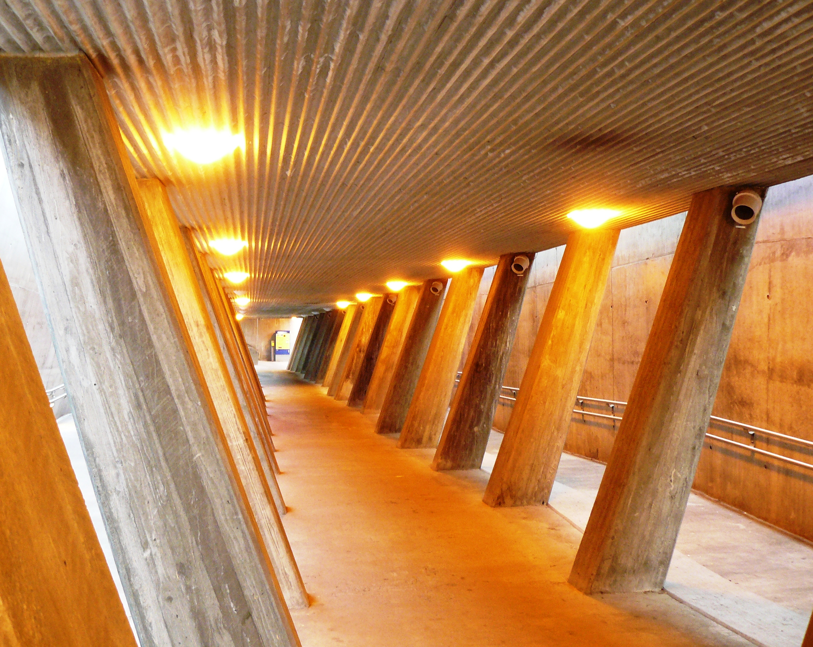 Sinsen subwaystation, Oslo